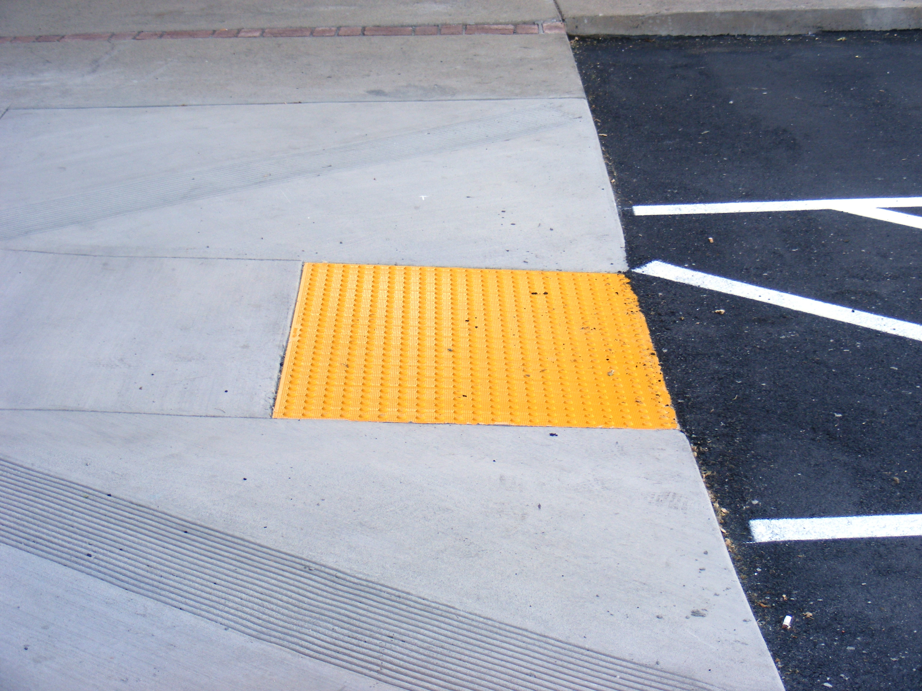 Truncated domes (or tactile paving) can be seen here on a down-ram into a parking lot. Photo was taken June 16, 2007.